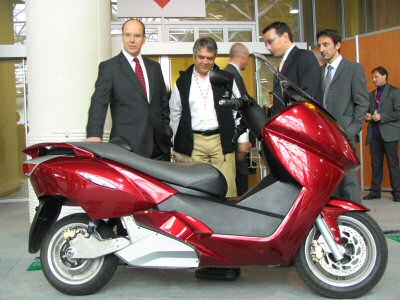 Saturday April 1st 2006. Albert II visits the EVER Monaco 2006 and discusses about an electric maxi scooter from Vectrix. The picture is photographed by myself and published on my site The small 400x300 resolution is GFDL available. The original photo is available from me.